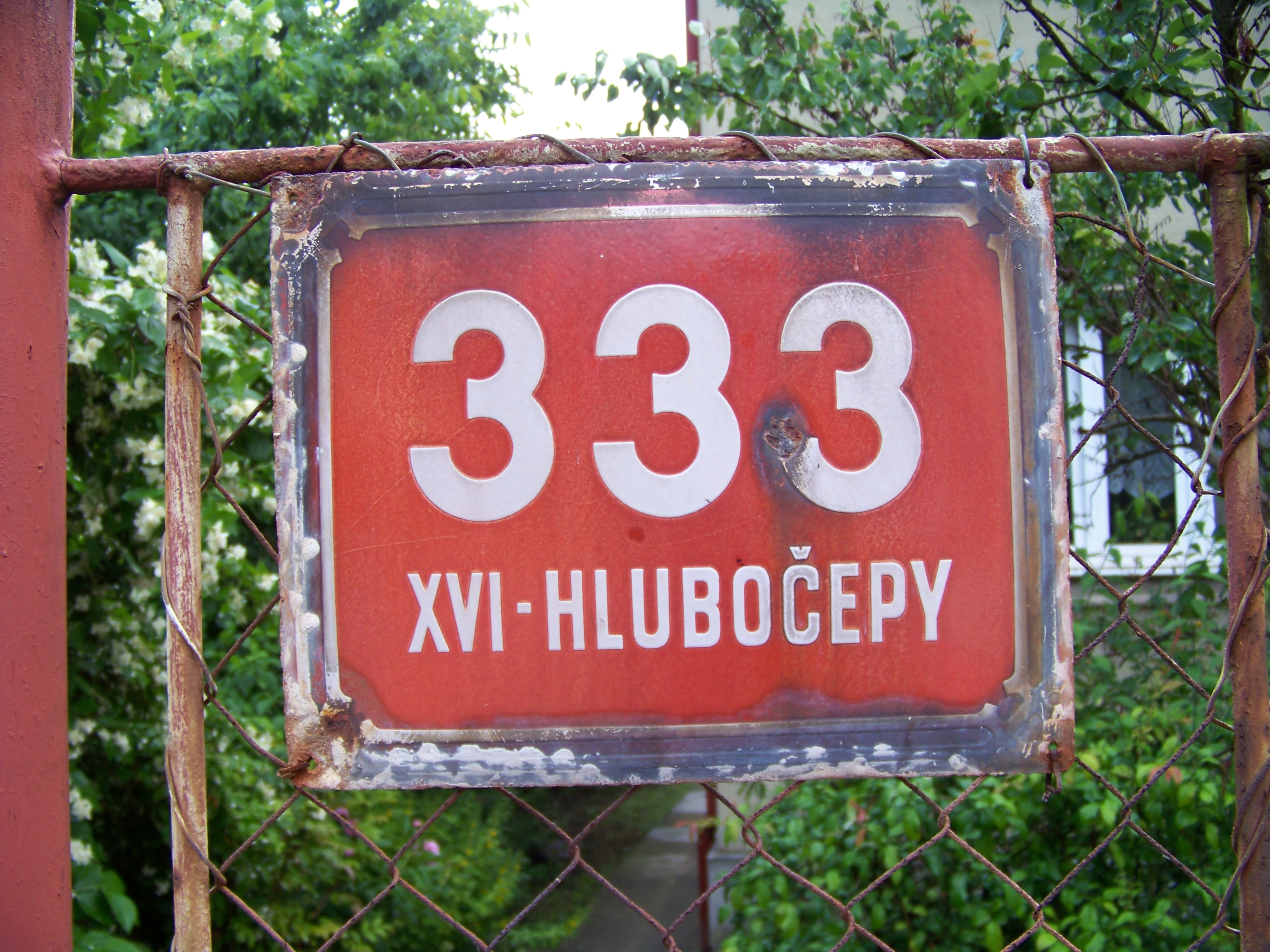 Hlubočepy, Prague, the Czech Republic. Na srpečku street, a house number.